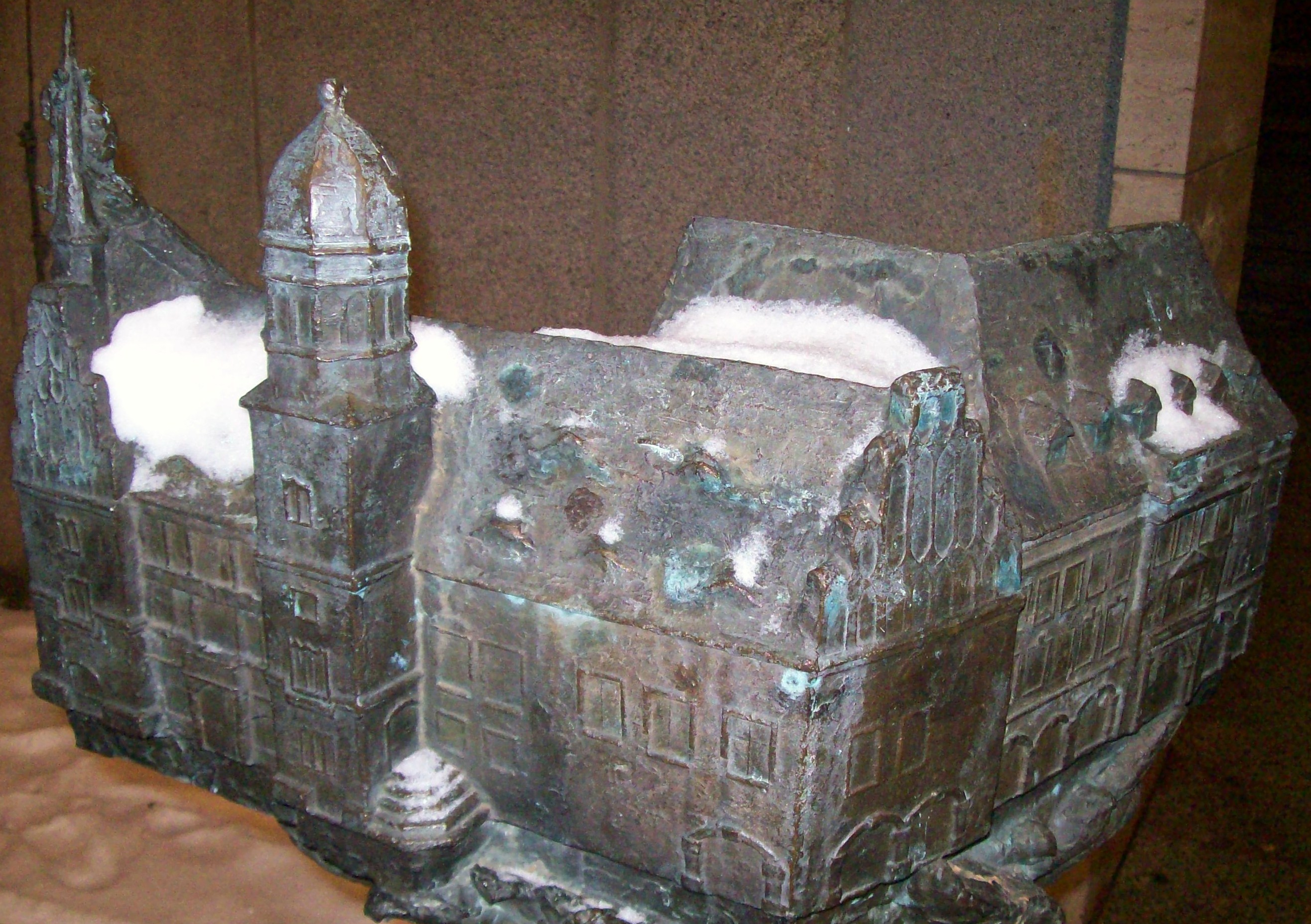 Bronze sculpture of the Old Town Hall in Halle (Saale) by Cathleen Meier